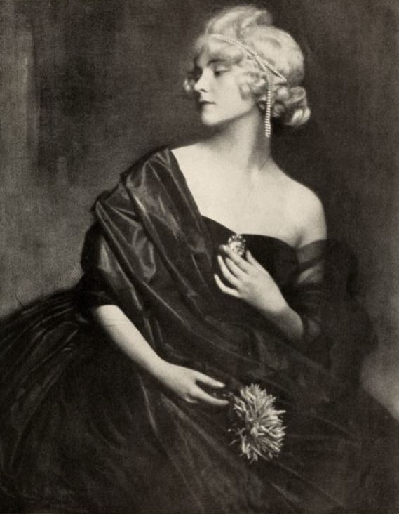 Austrian actress Maria Minzenti, on page 51 of the November 1922 Shadowland. The caption listed her name as Maria Mindszenty.